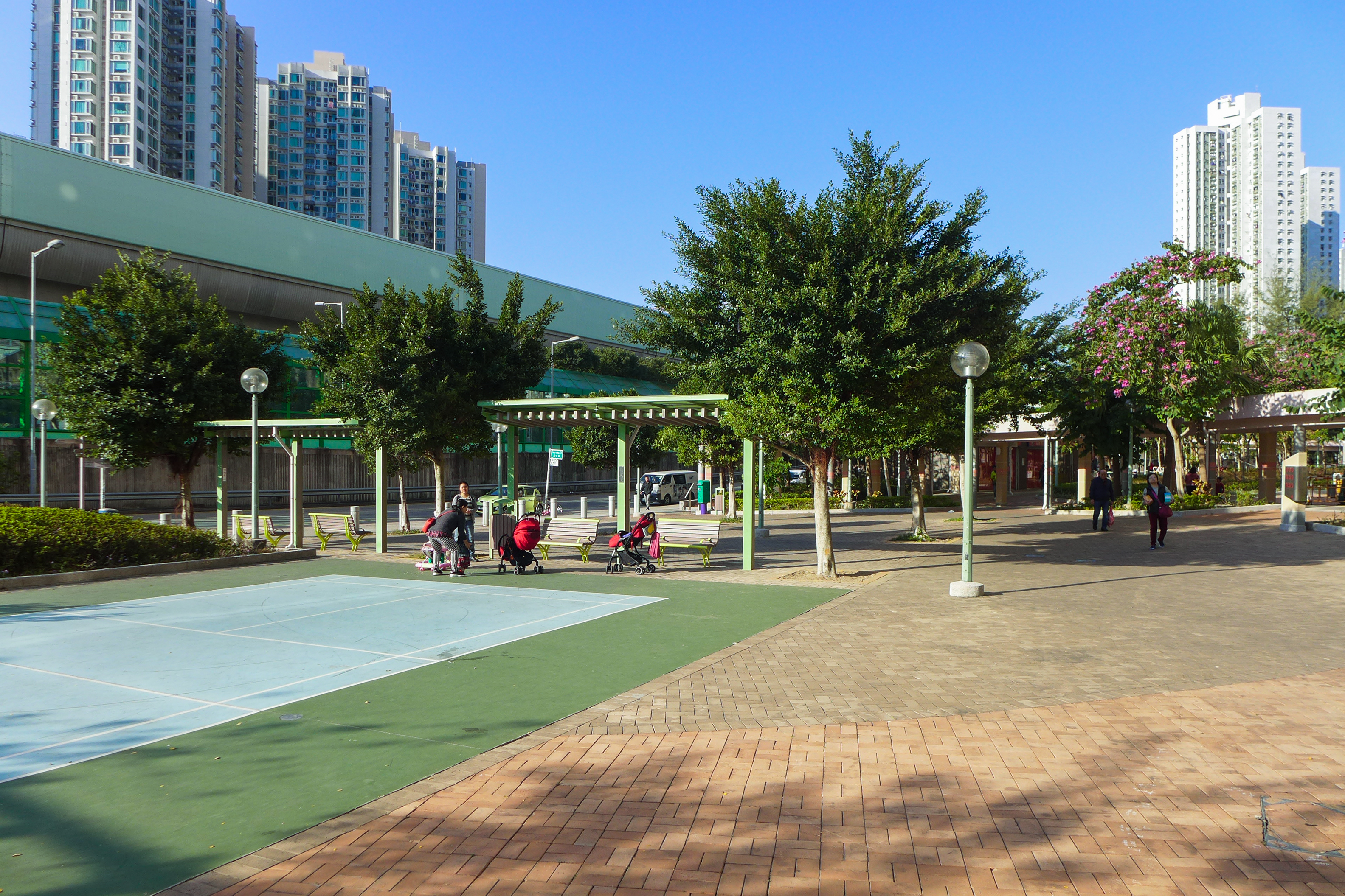 Yan On Estate Badminton Court & open space